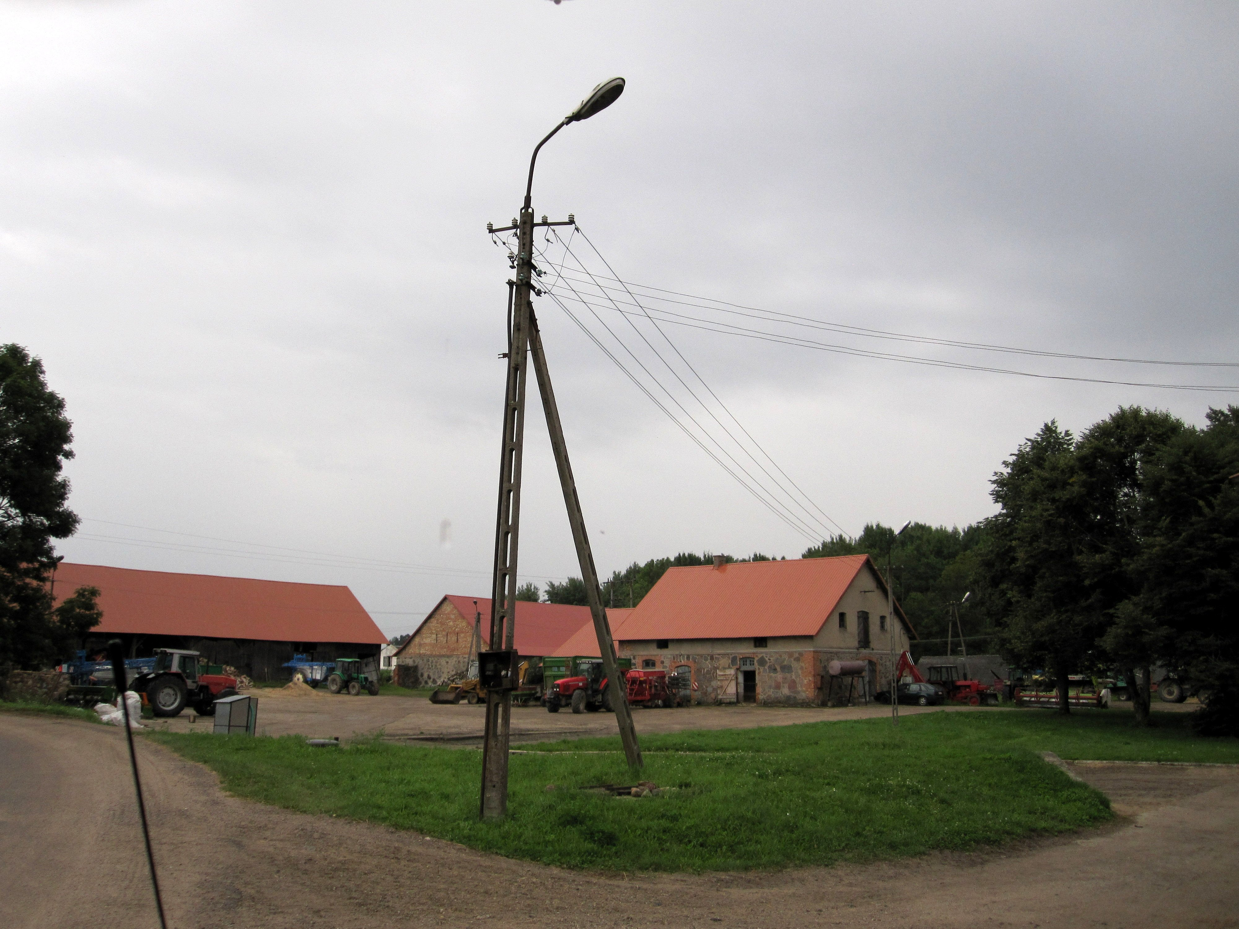 Ruska wieś, Ełk county - old farm buildings